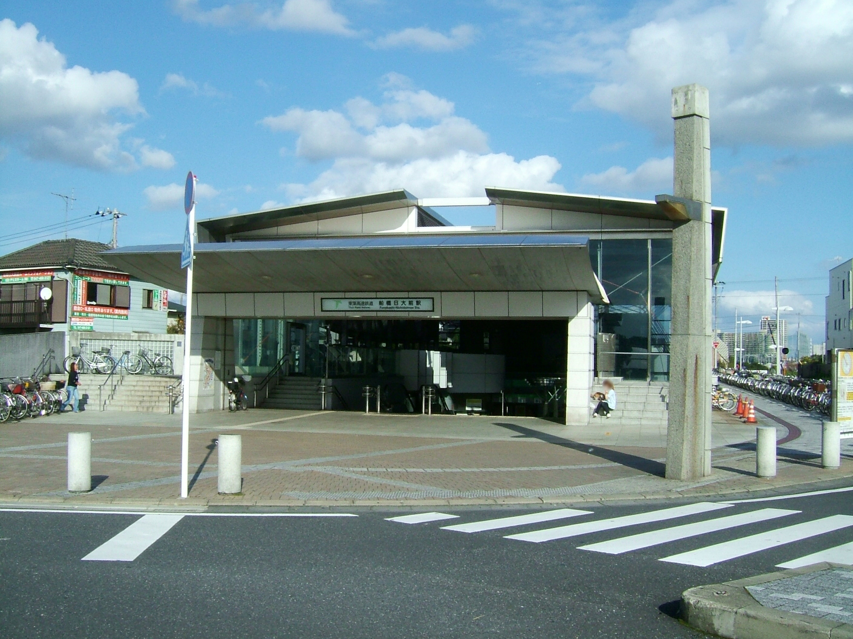 The west entrance to Funabashi-Nichidai-Mae Station on the Toyo Rapid Railway Line